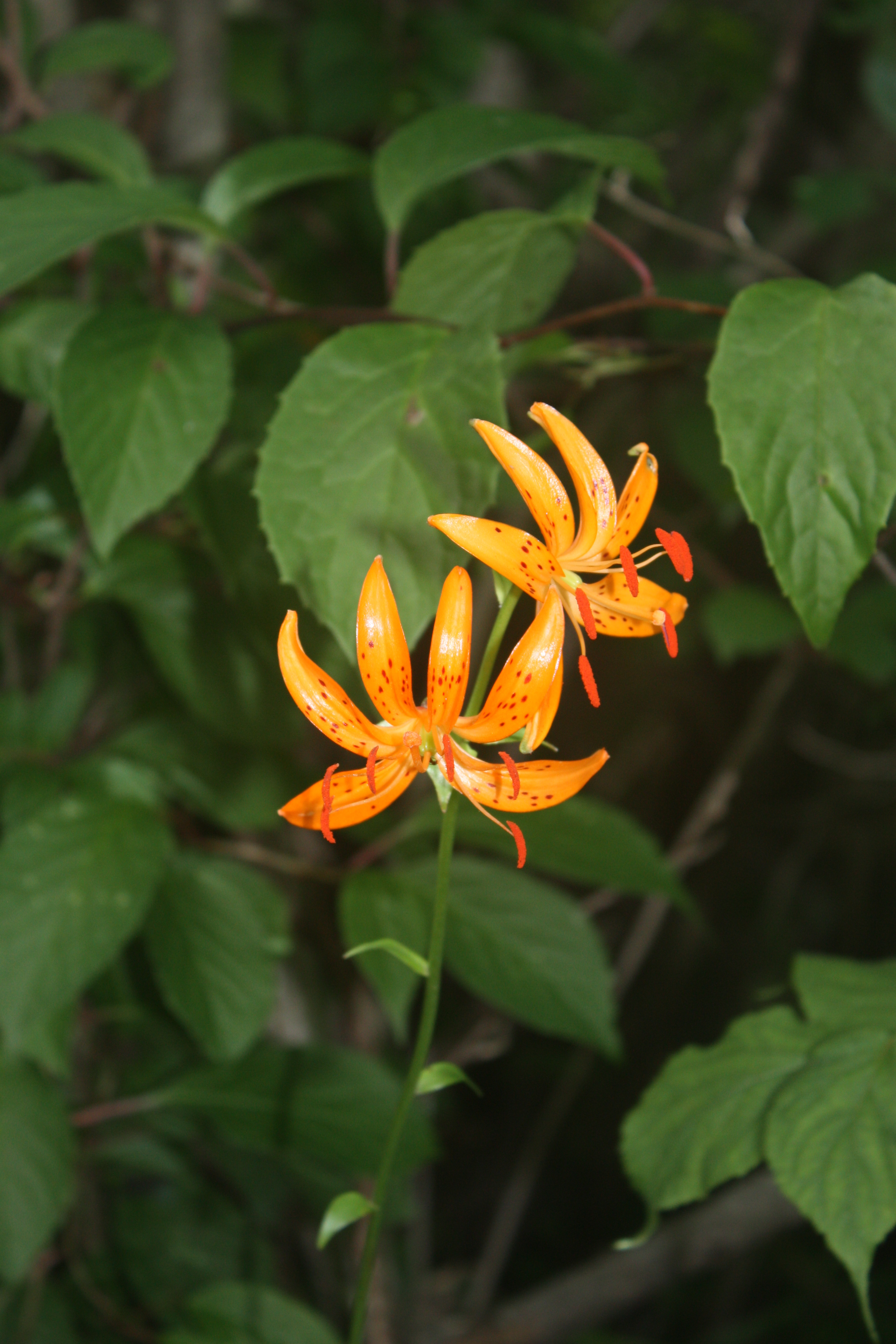 Lilium distichum, Nogodan, Jirisan, South Korea